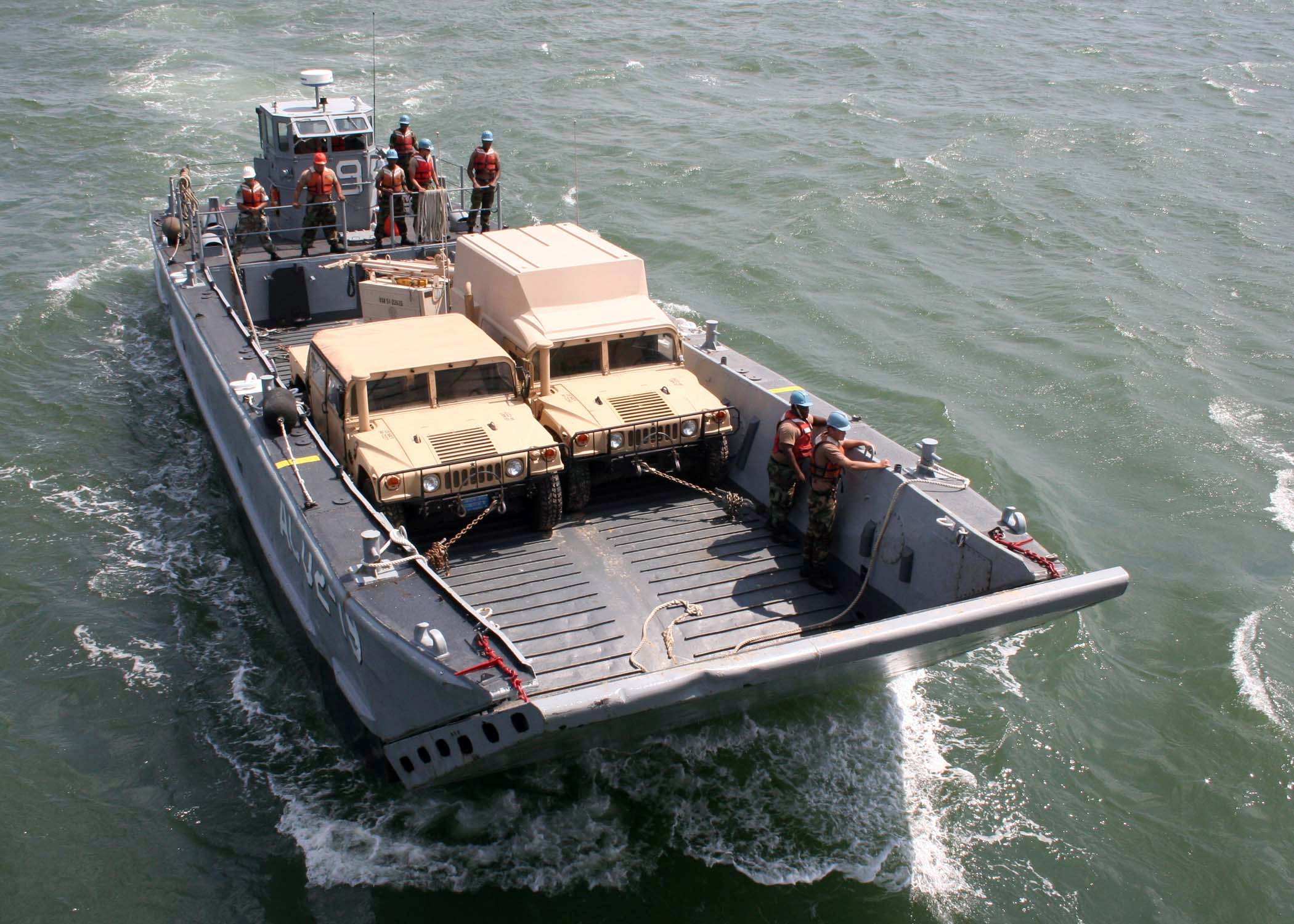 Gulf of Mexico (Aug. 31. 2005) – Sailors stationed aboard the Landing Craft Mechanized One Nine (LCM 19) assigned to Assault Craft Unit Two (ACU 2) man the rails as they prepare to embark aboard the amphibious dock landing ship USS Tortuga (LSD 46) in support of Hurricane Katrina disaster relief efforts. The Navy's involvement in the humanitarian assistance operations is led by the Federal Emergency Management Agency (FEMA), in conjunction with the Department of Defense. U.S. Navy photo by Journalist Brian Seymour (RELEASED)